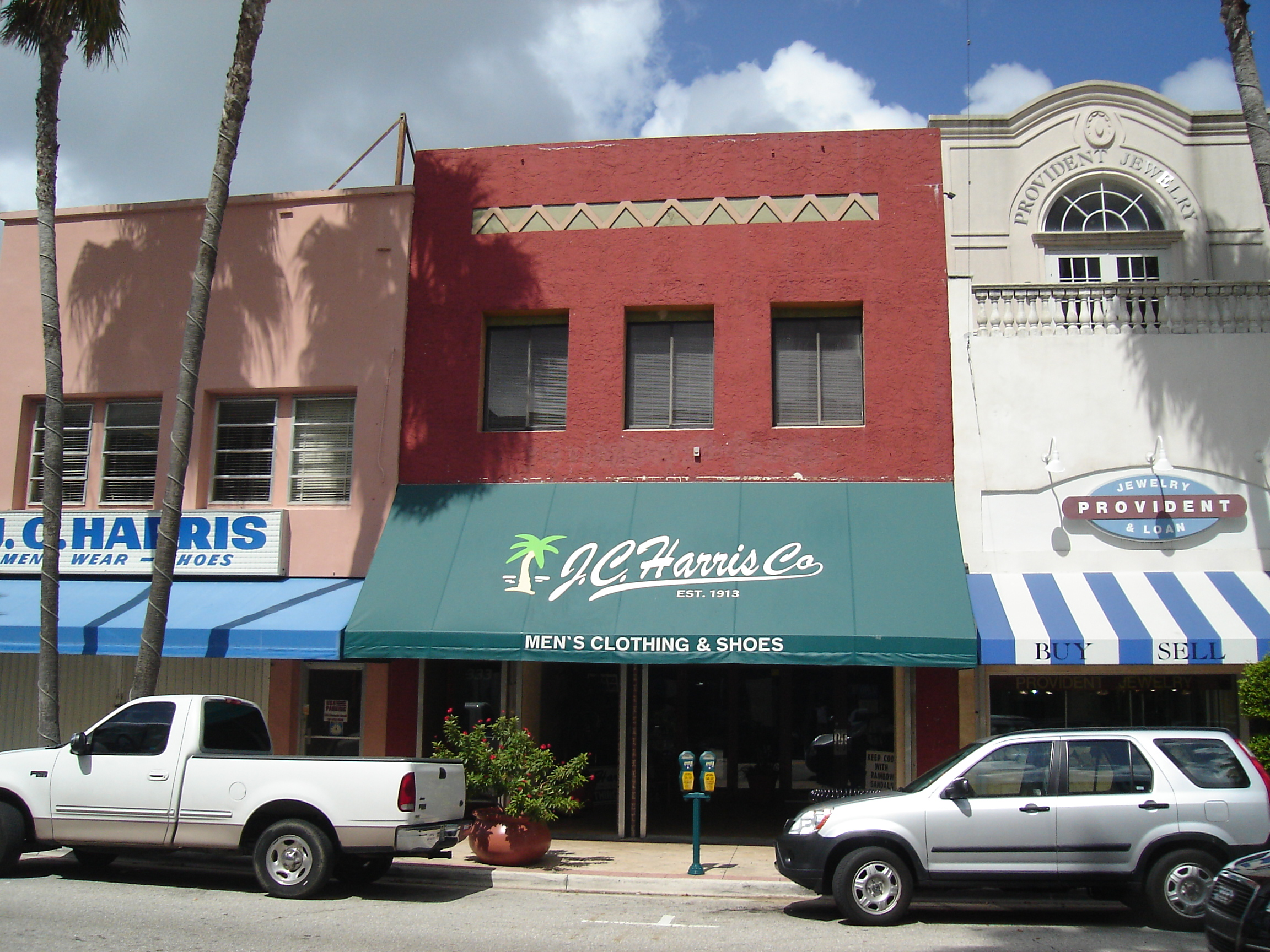 Some shops on Clematis Street